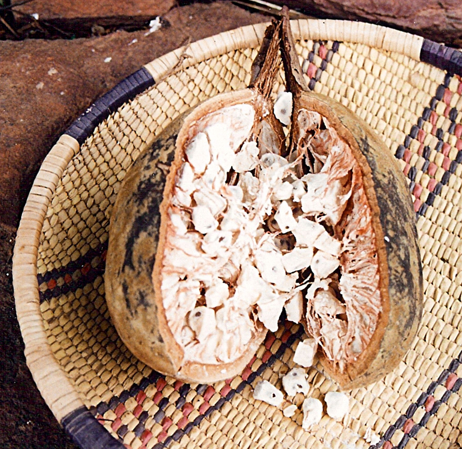 A baobab fruit split open to show the seeds. The fruit is about 18 cm long, and the seeds themselves are dark and encased in cubes of dry, white pulp, which can be dissolved in water with sugar or warm milk to make a drink. This fruit was obtained in the Eastern Highlands of Zimbabwe